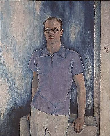 Henry Mond, 2nd Baron Melchett (10 May 1898 – 22 January 1949) was a British politician, industrialist and financier.